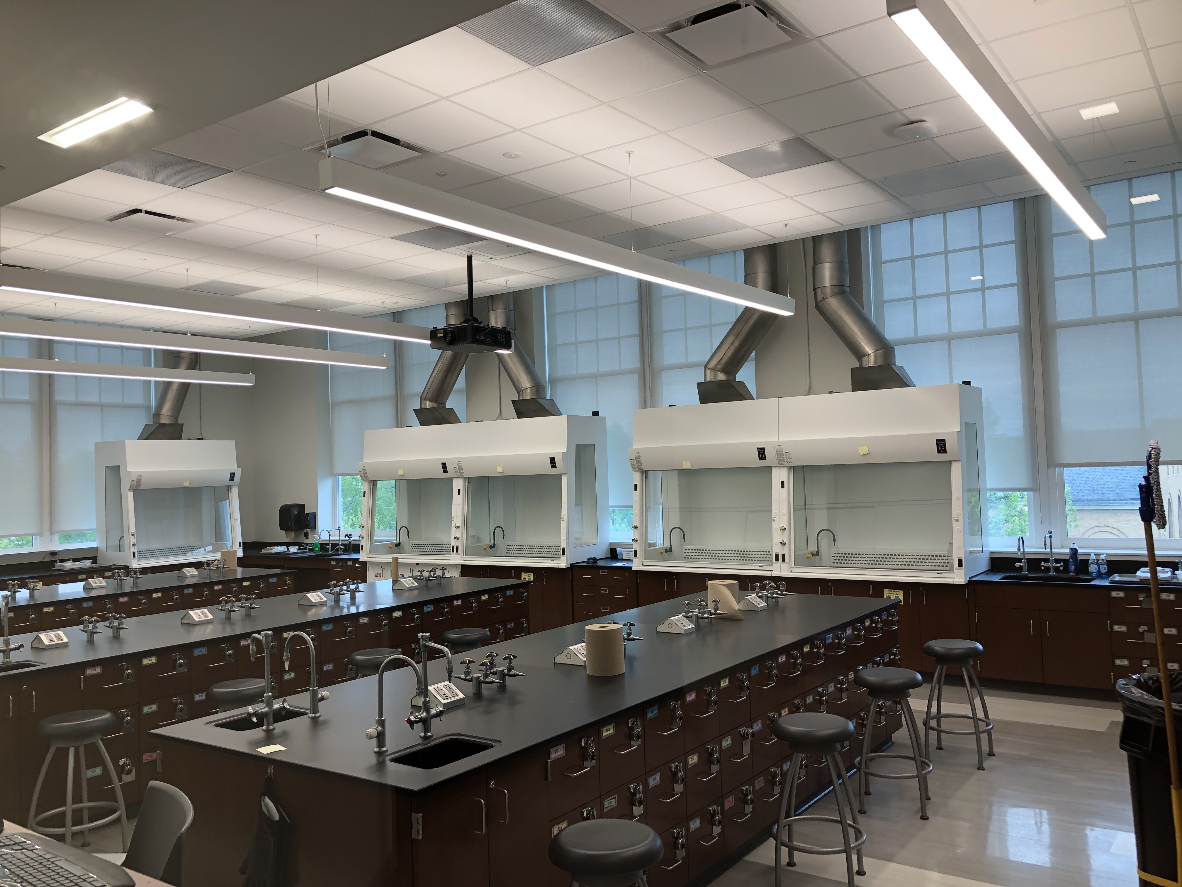 Moseley Hall Chemistry Lab